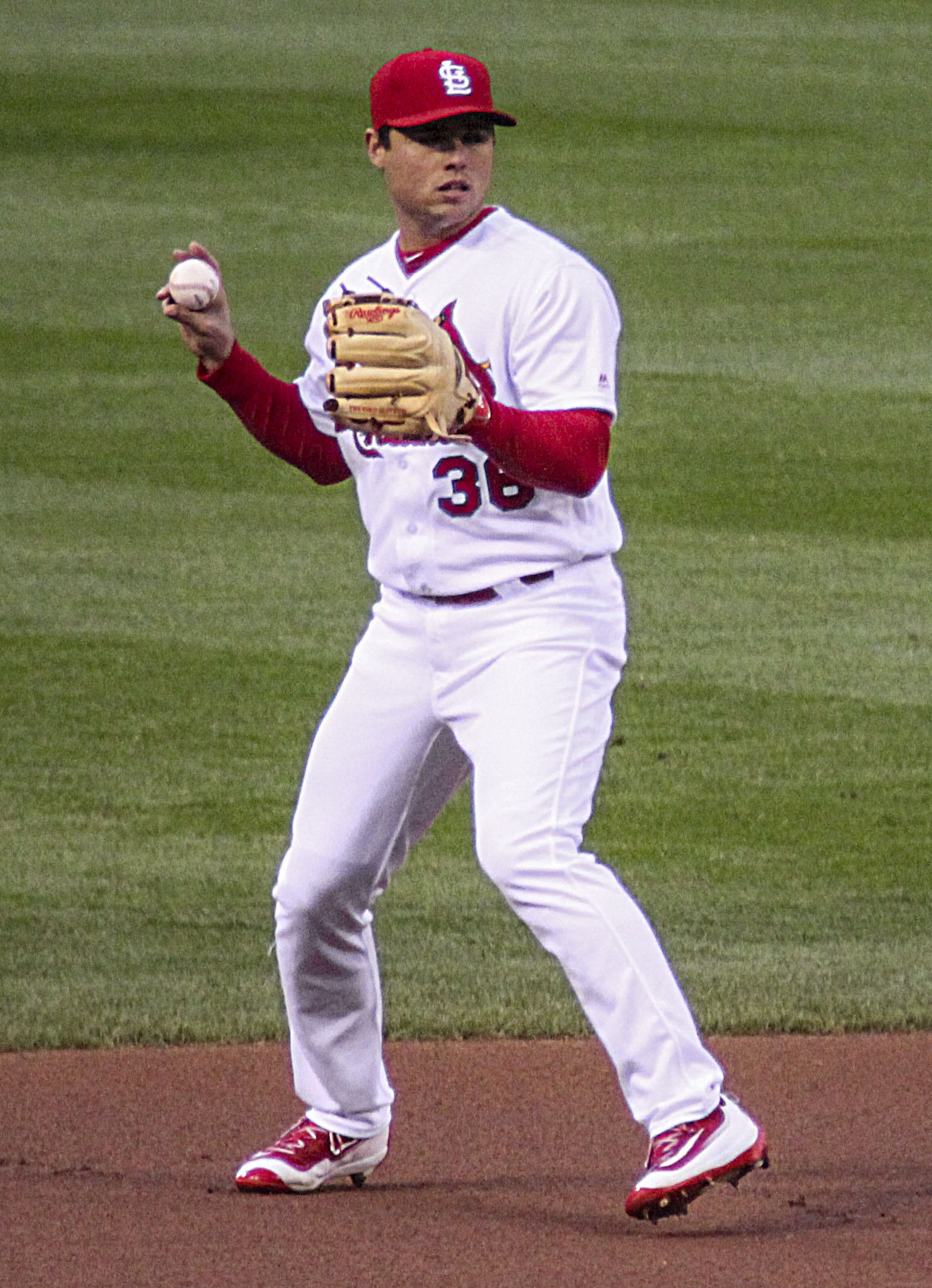 Aledmys Díaz of the St. Louis Cardinals.